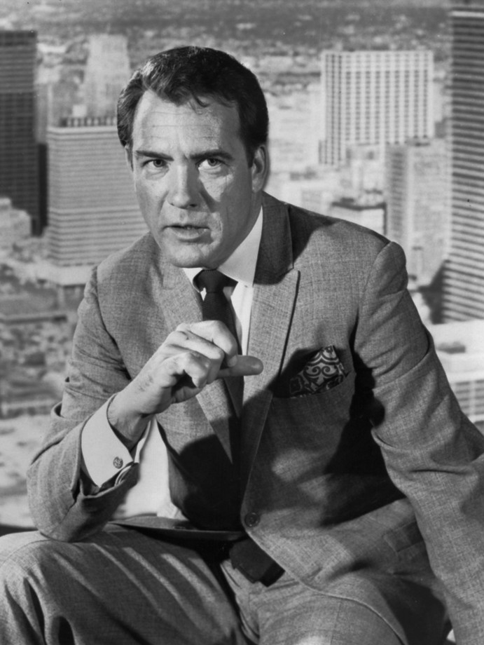 Photo of Carl Betz as Clinton Judd from the television program Judd, for the Defense.